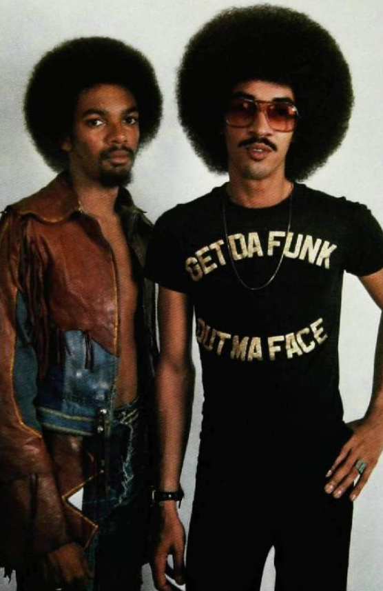 Trade ad for The Brothers Johnson's album Look Out for #1. To better adapt it to his respective Wikipedia article, the ad was cropped and cleaned in a graphics editing program. The original can be viewed at the source below.